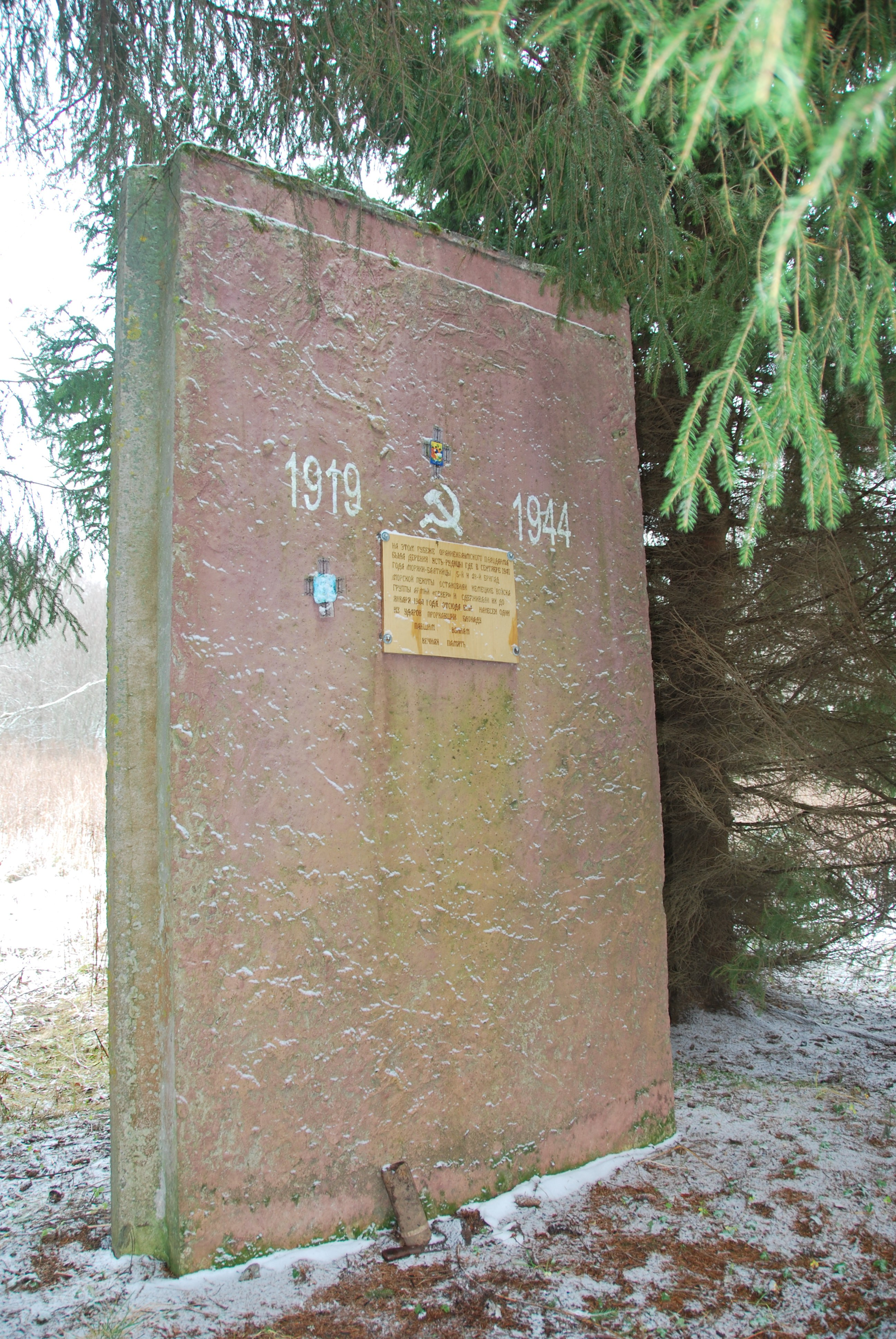 Memorial at the place of Ust'-Ruditsa village